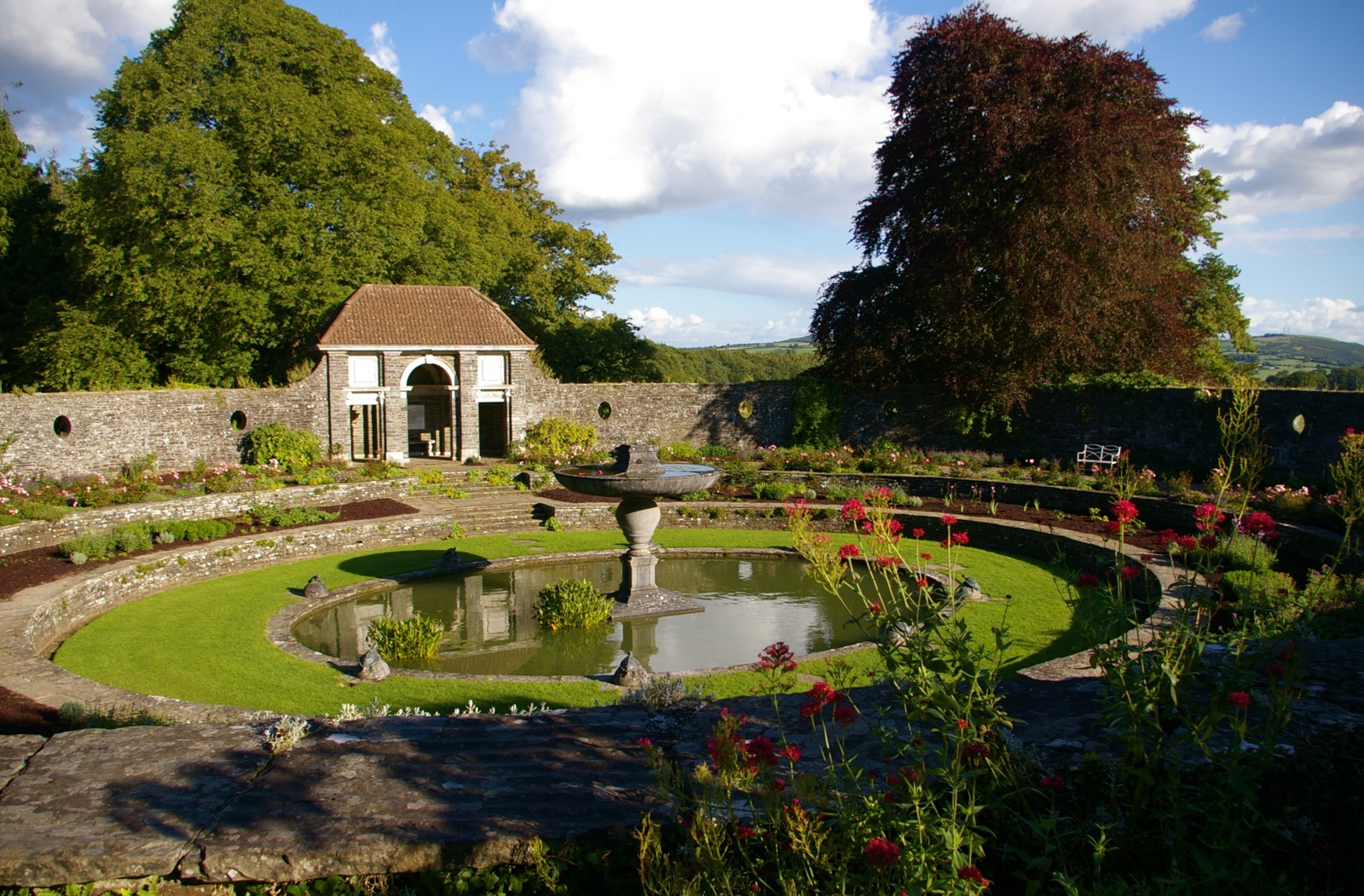 Heywood Gardens in Ballinakill, Co Laois, Ireland